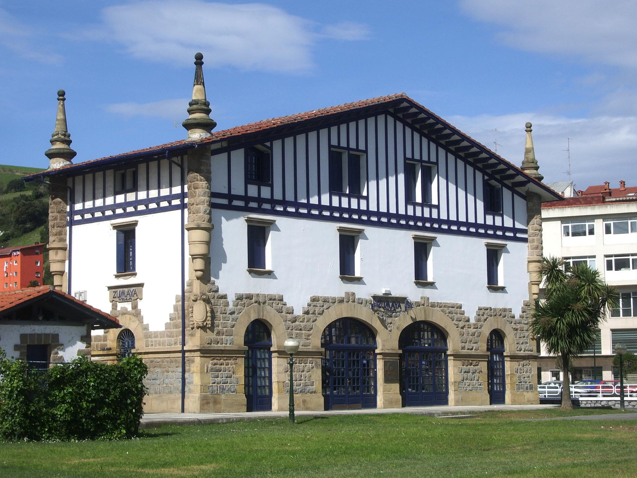 Old train station in Zumaia (Guipuscoa, Basque Country)